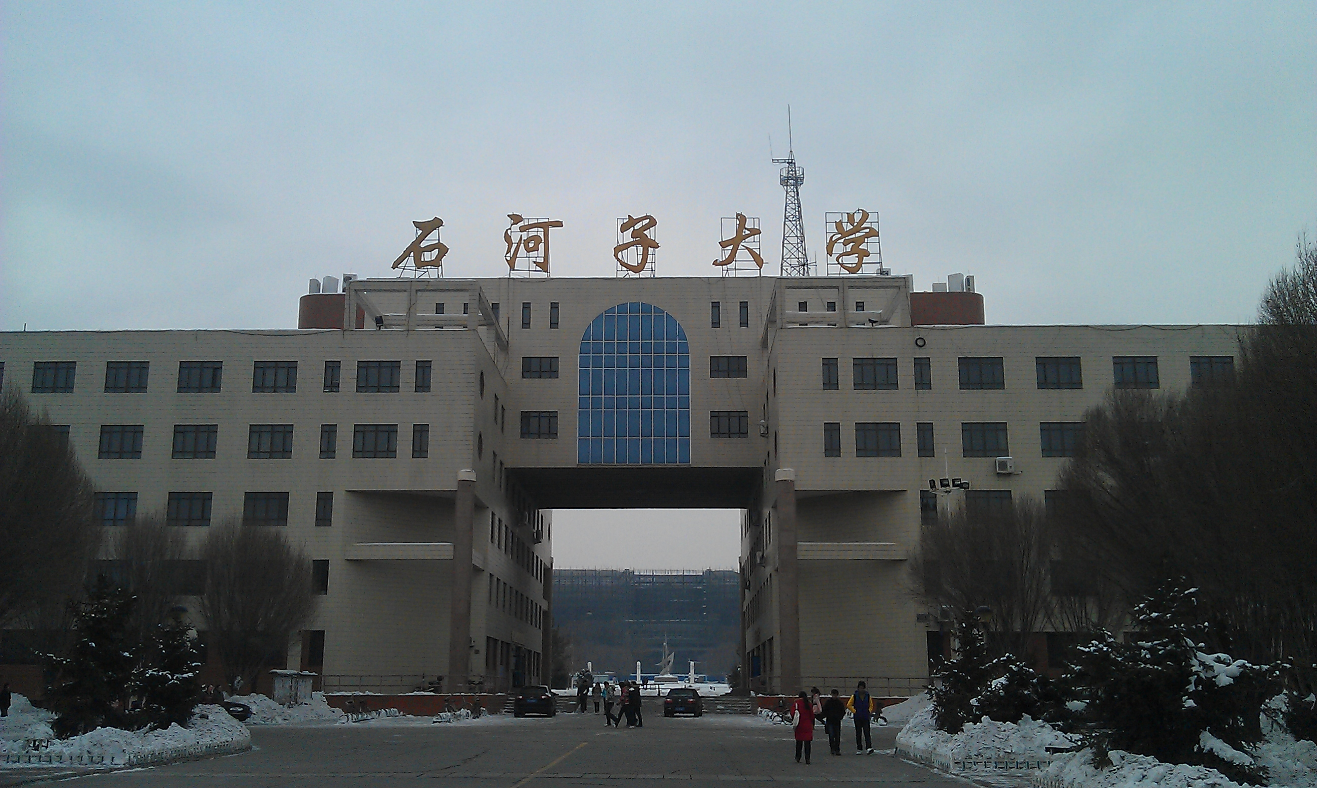 Shihez University